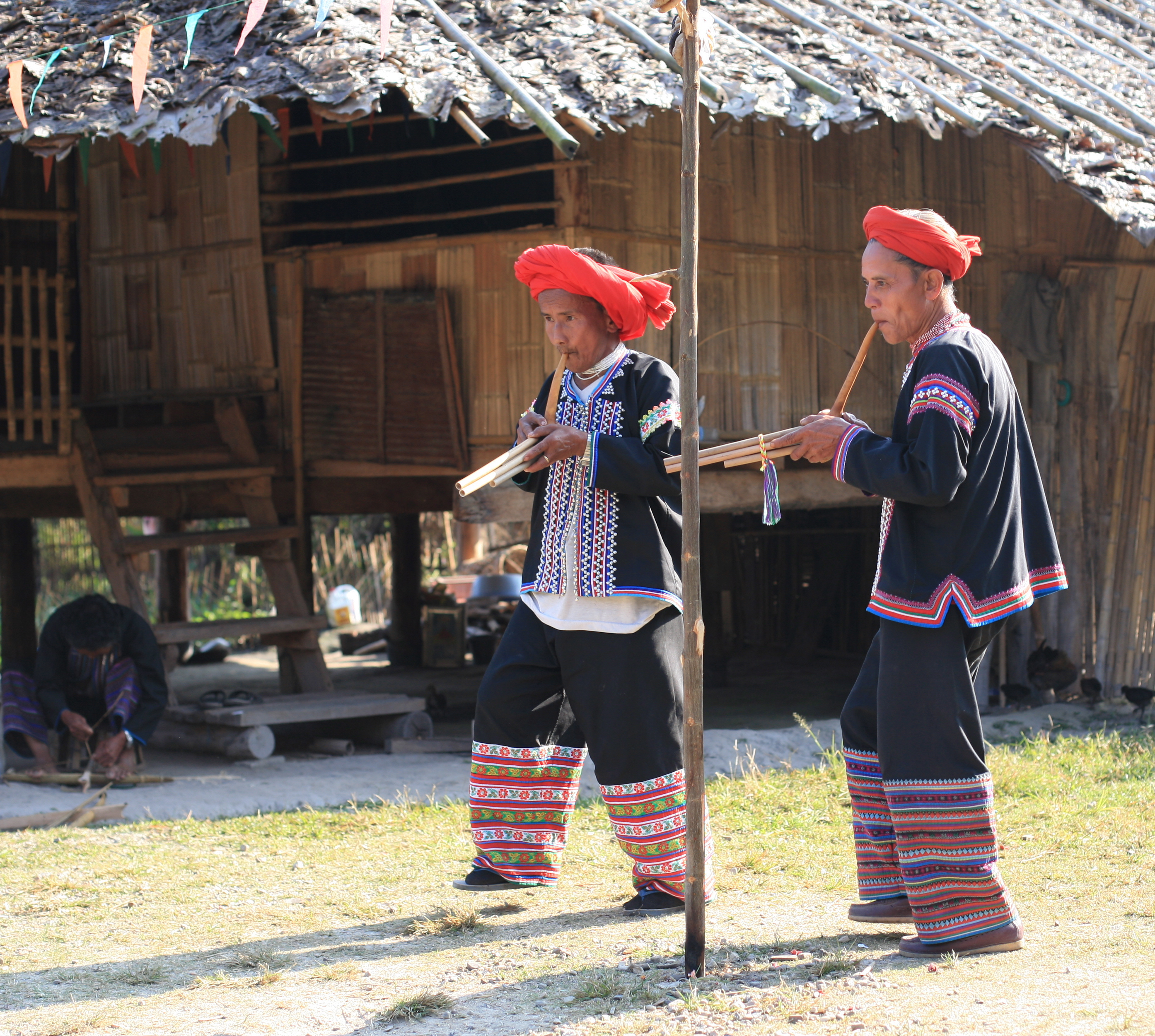 Two Lahu men in traditional clothes, Burmese refugees in Thailand, play pan flutes. Original caption: An impromptu Lahu pan flute dance around the pole